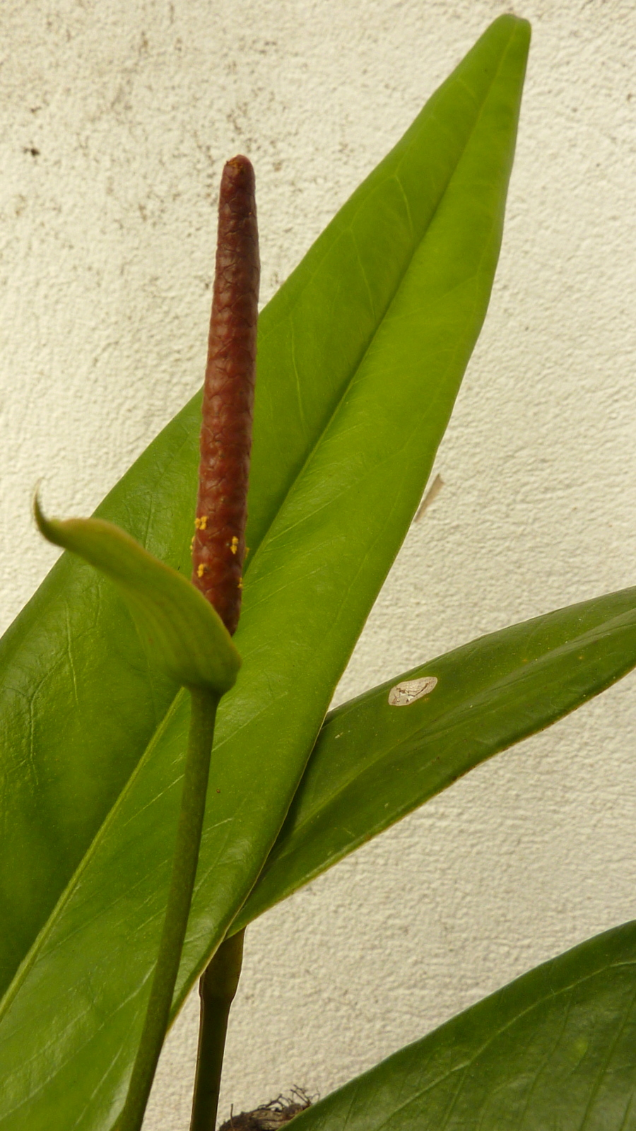 At anthesis.